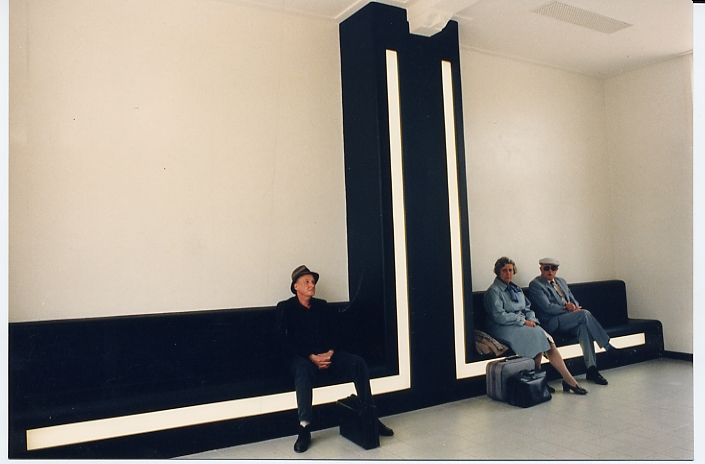 "The Ls" was installed in the Hardenberg Railway Station, the Netherlands, in 1990 (realization by Richard Hefti, sitting to the left in the picture). Photograph by Nan Hoover (in the Archive with Collections of the Art Academy, Dusseldorf. (c) Courtesy of the Nan Hoover Foundation